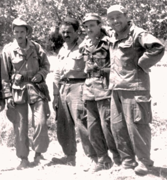 Zighoud Youcef, Rouibah Hocine, Ben M'hidi Laarbi und Ouamrane Amar